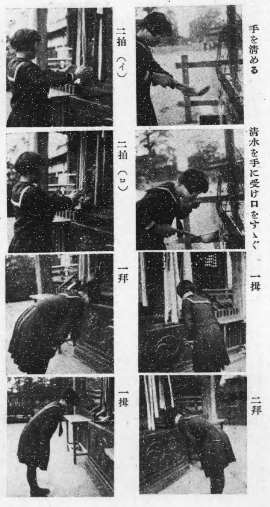 In front of a prewar Japanese shrine, a girl in a sailor uniform performs a sequence of worship, including two bows and two claps and one bow. She purifies her hands, adds water on her palm, rinses her mouth, bows once shallowly, bows twice deeply, claps twice, bows twice deeply, bows once shallowly.